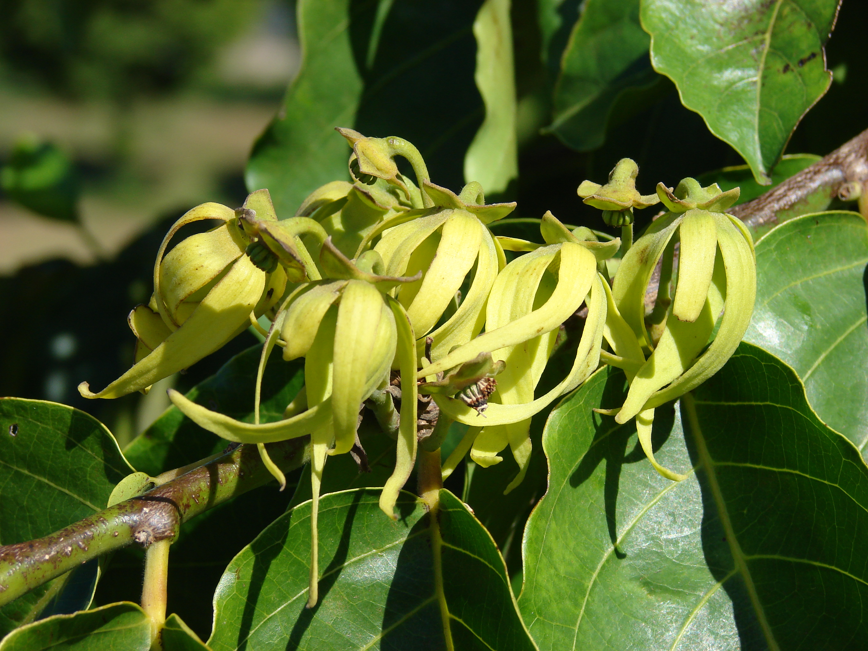 Cananga odorata (flowers). Location: Maui, Eddie Tam Makawao